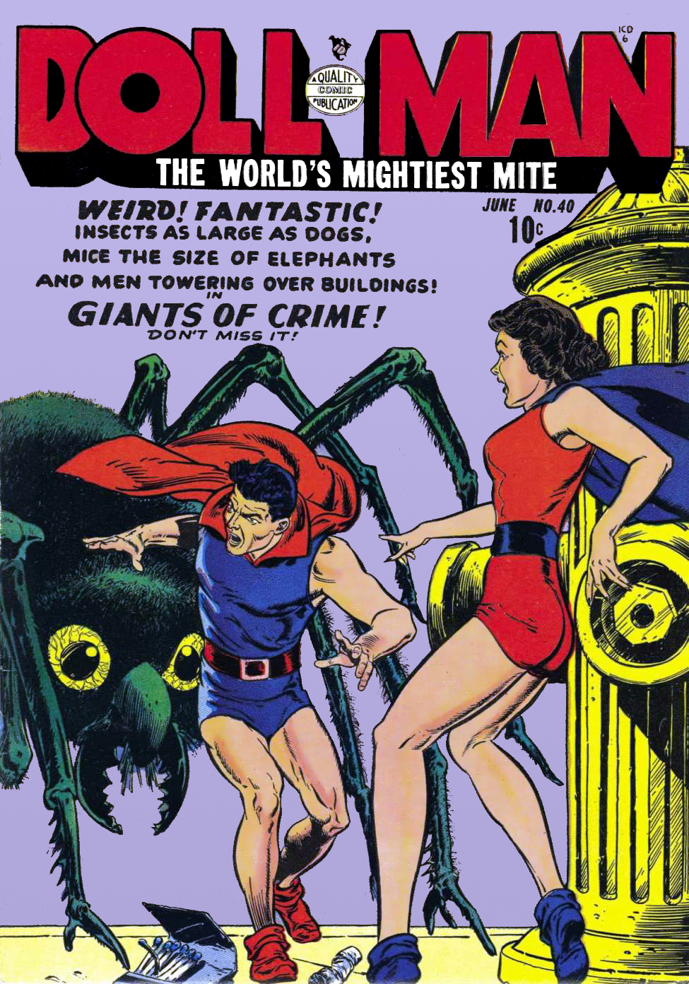 Dollman and Dollgirl featured on the cover of Dollman, volume 1, number 40, June 1952, as published by Quality Comics. This image has lapsed into the public domain, due to Quality failing to renew the copyright.